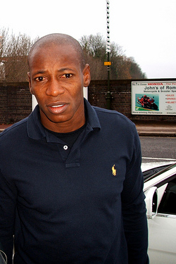 Luís Boa Morte at Upminster station. Photo cropped